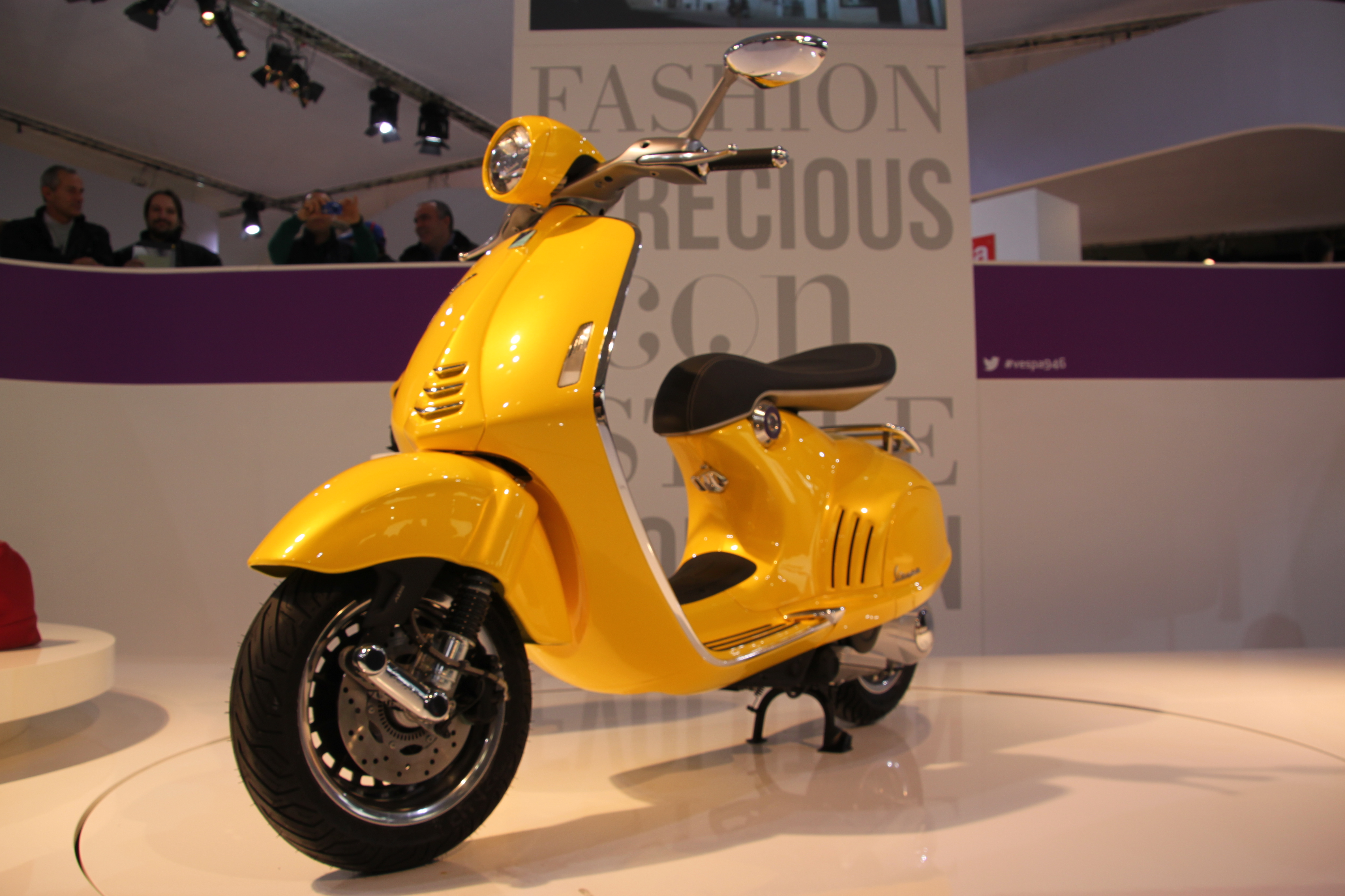 Vespa 946 diagonal